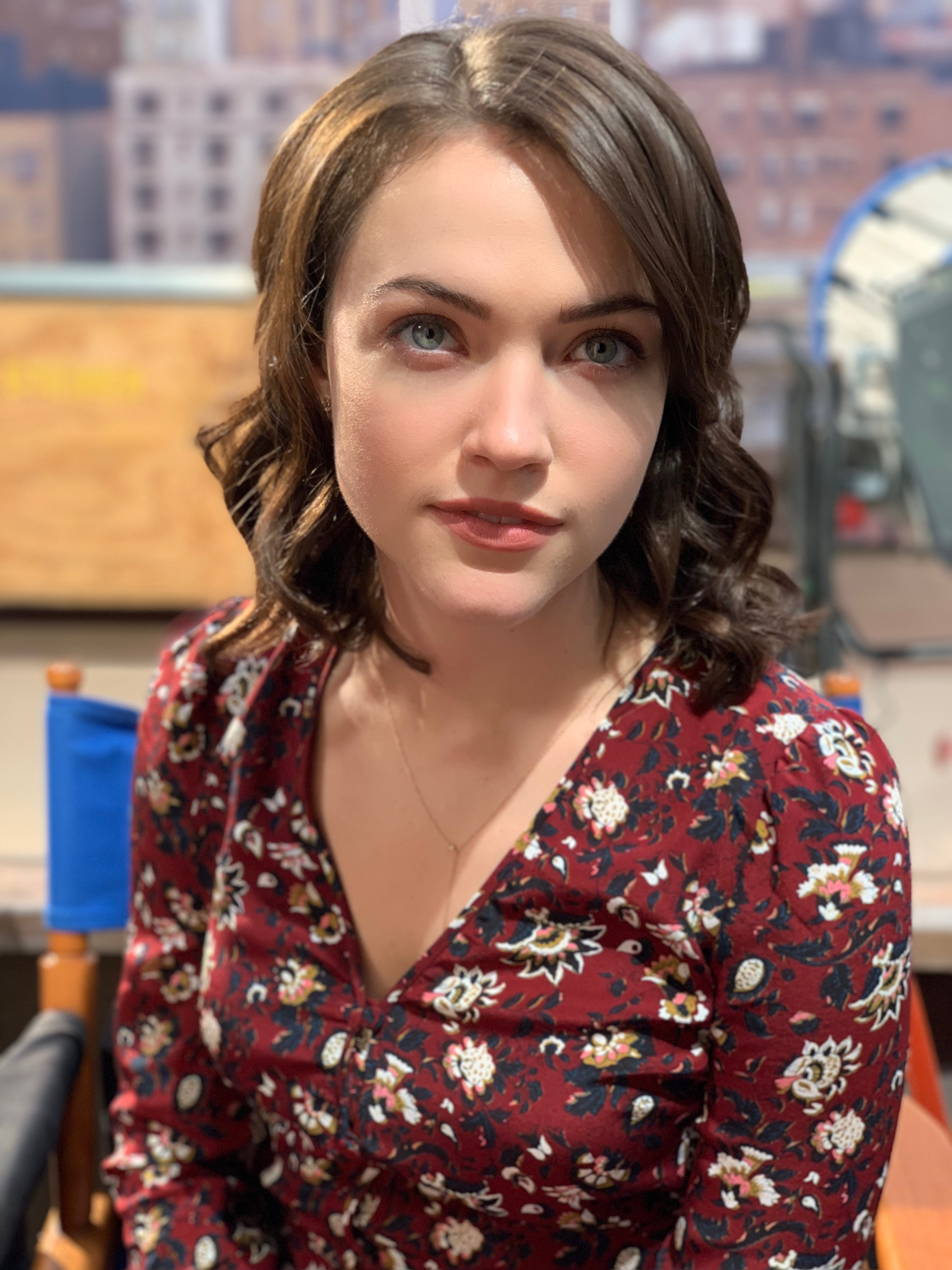 Actress Violett Beane on location.